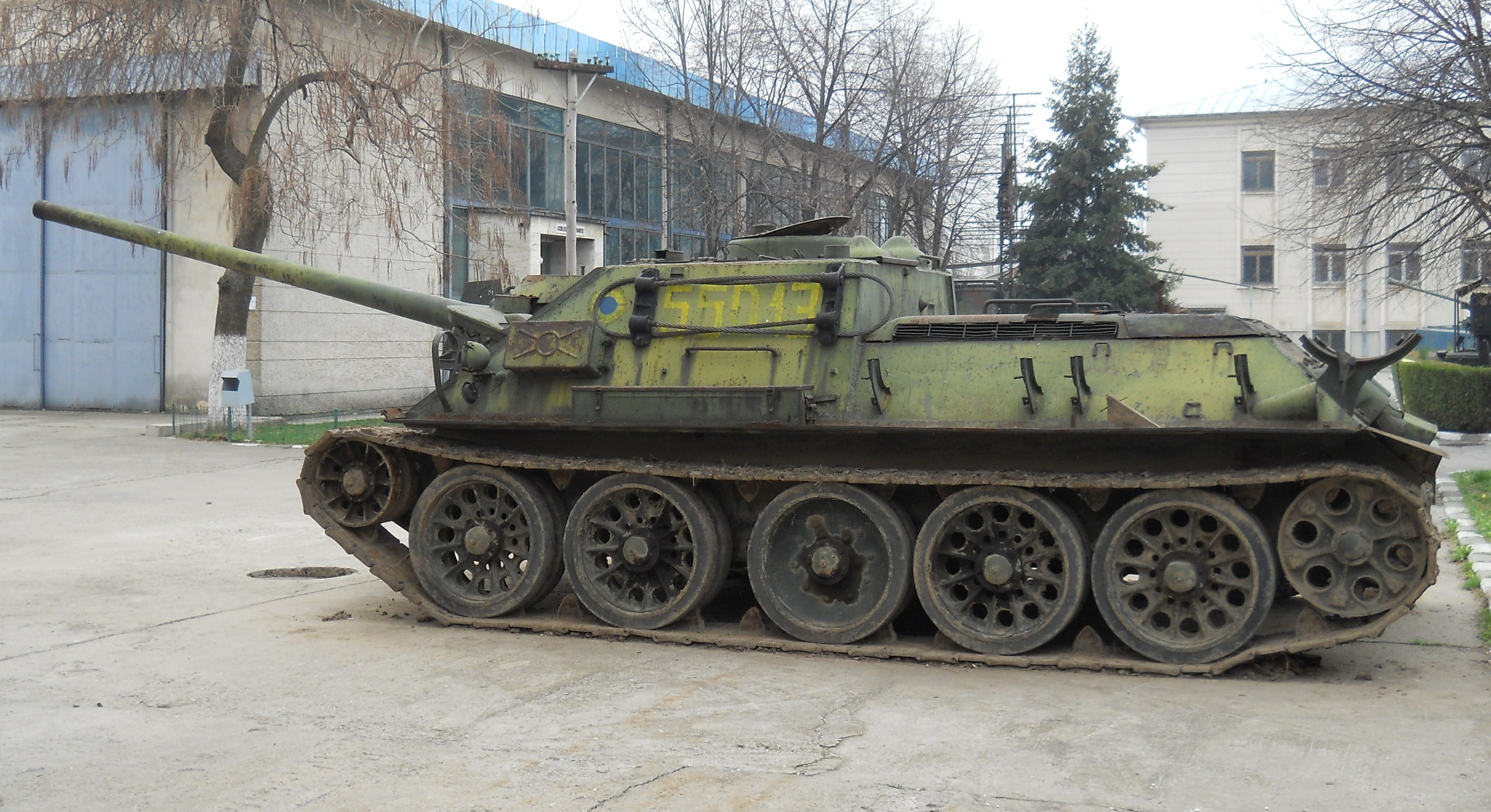 Czechoslovak-produced SU-100 tank destroyer on display at "King Ferdinand" National Military Museum in Bucharest, Romania.